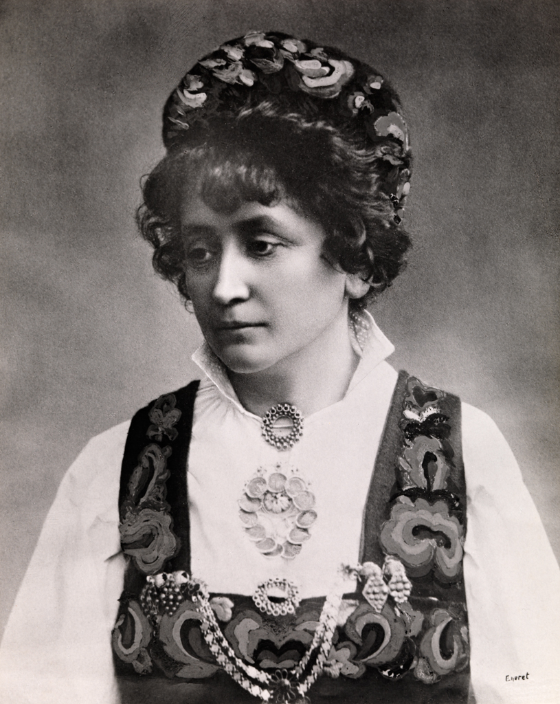 Fotograf / Photographer: Rude Eier / Owner Institution: Nasjonalbiblioteket / National Library of Norway Lenke / Link: Bildesignatur / Image Number: blds_03014